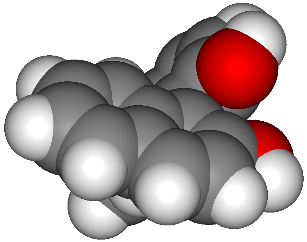 3D Representation of BINOL